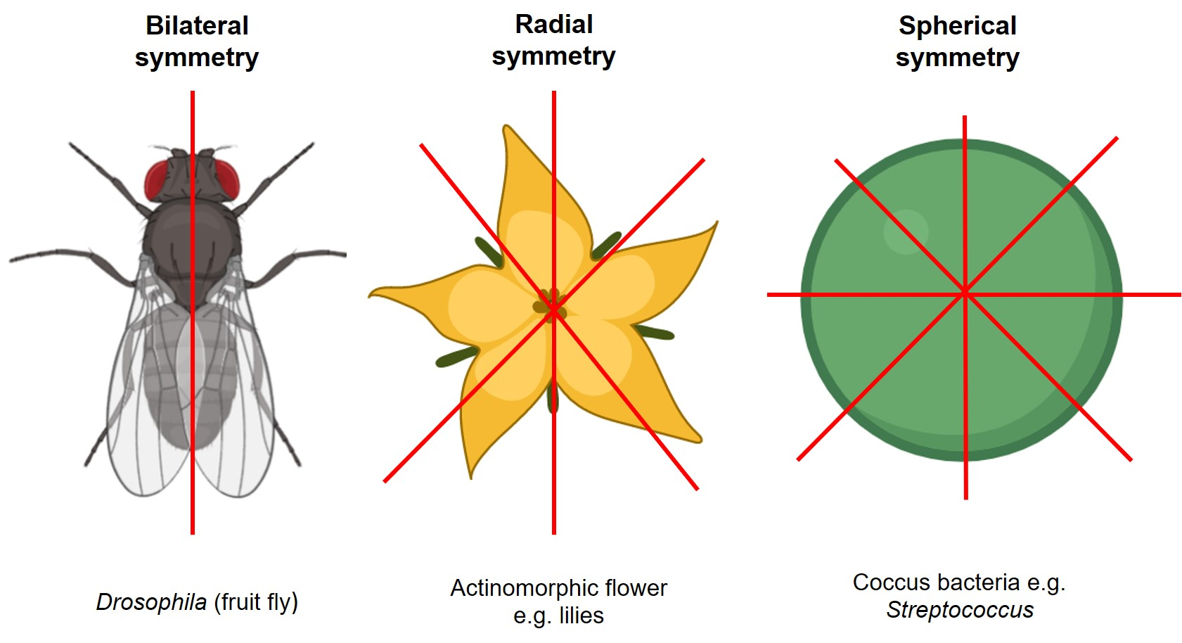 Illustrating different forms of symmetry in biology - the three main forms (bilateral, radial and spherical). Cartoon form generated using shapes from biorender. To be used in the symmetry in biology page.